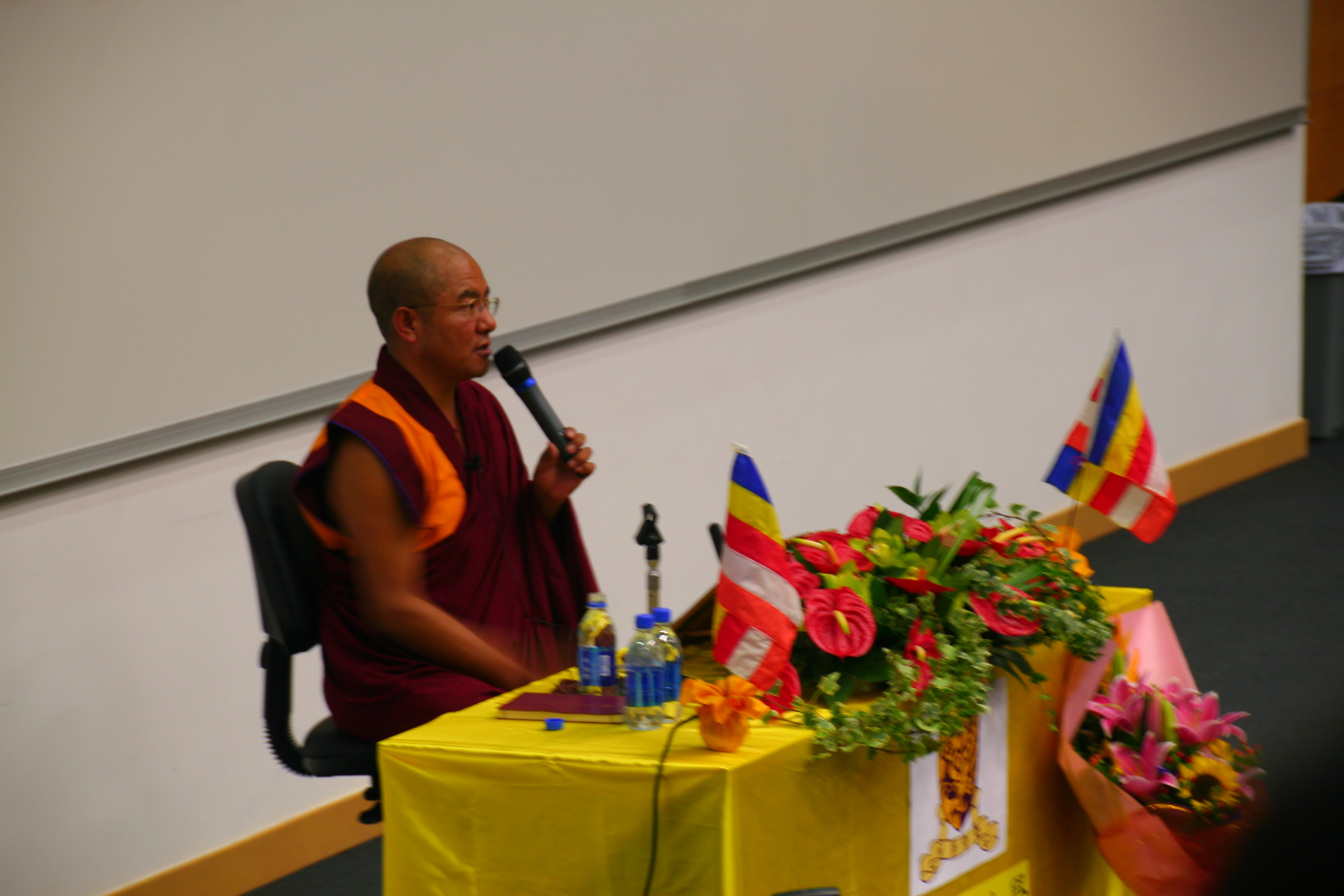 Khenpo Talking at Chinese University of Hong Kong